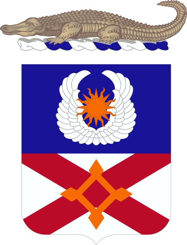 Shield Per fess Azure and Argent, in chief a vol Argent superimposed by a sun in splendor Tenné, and in base on a saltire Gules a four-bastioned fort Tenné. Crest That for the regiments and separate battalions of the Florida Army National Guard: On a wreath of the colors, Argent and Azure, an alligator statant Proper. Motto AIR WARRIOR AIR ATTACK.